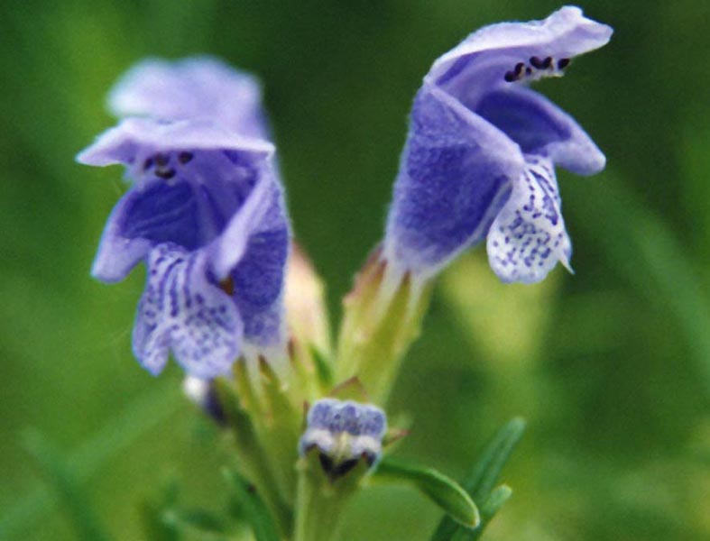 Dracocephalum ruyschiana